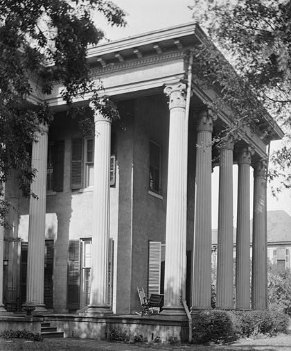 Swift Mansion, Columbus (Muscogee County, Georgia) cropped